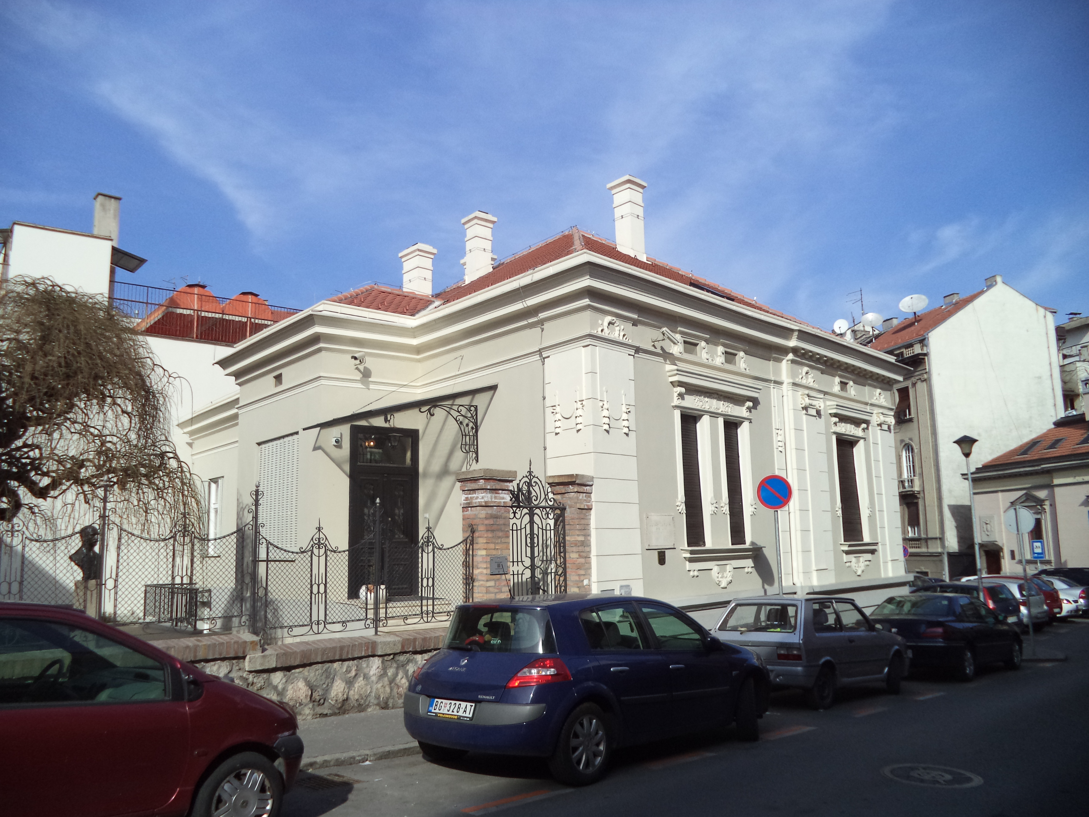 Jelena Ćetković street 5